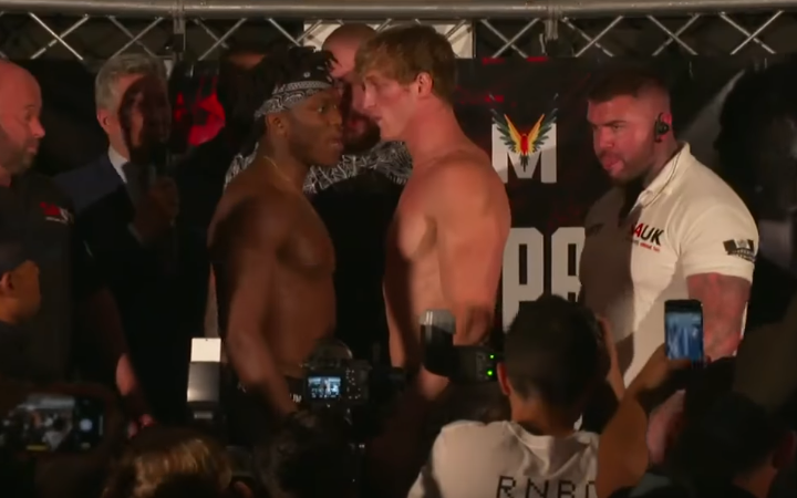 Ksi Vs Logan Paul Face off during the official weigh in